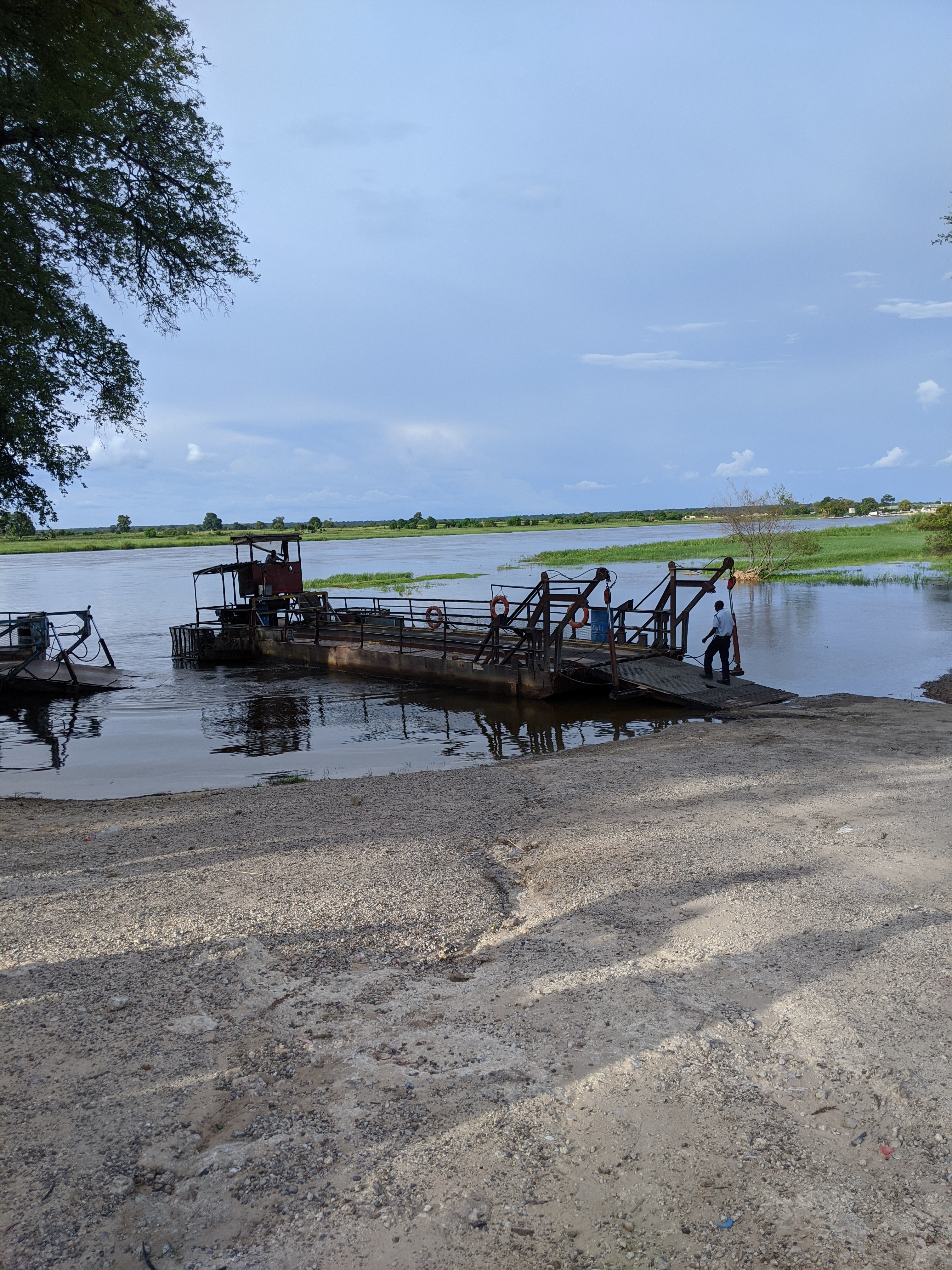 Crossing the Okavango River at the Mohembo Ferry Crossing. This is an image with the theme "Africa on the Move or Transport" from: Botswana